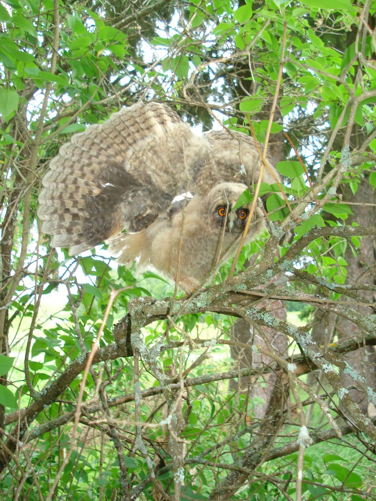 Long-eared Owl; Latvia